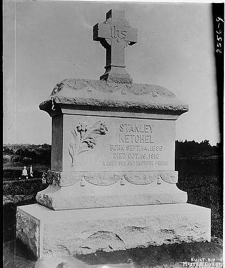 Gravestone of boxer Stanley Ketchel